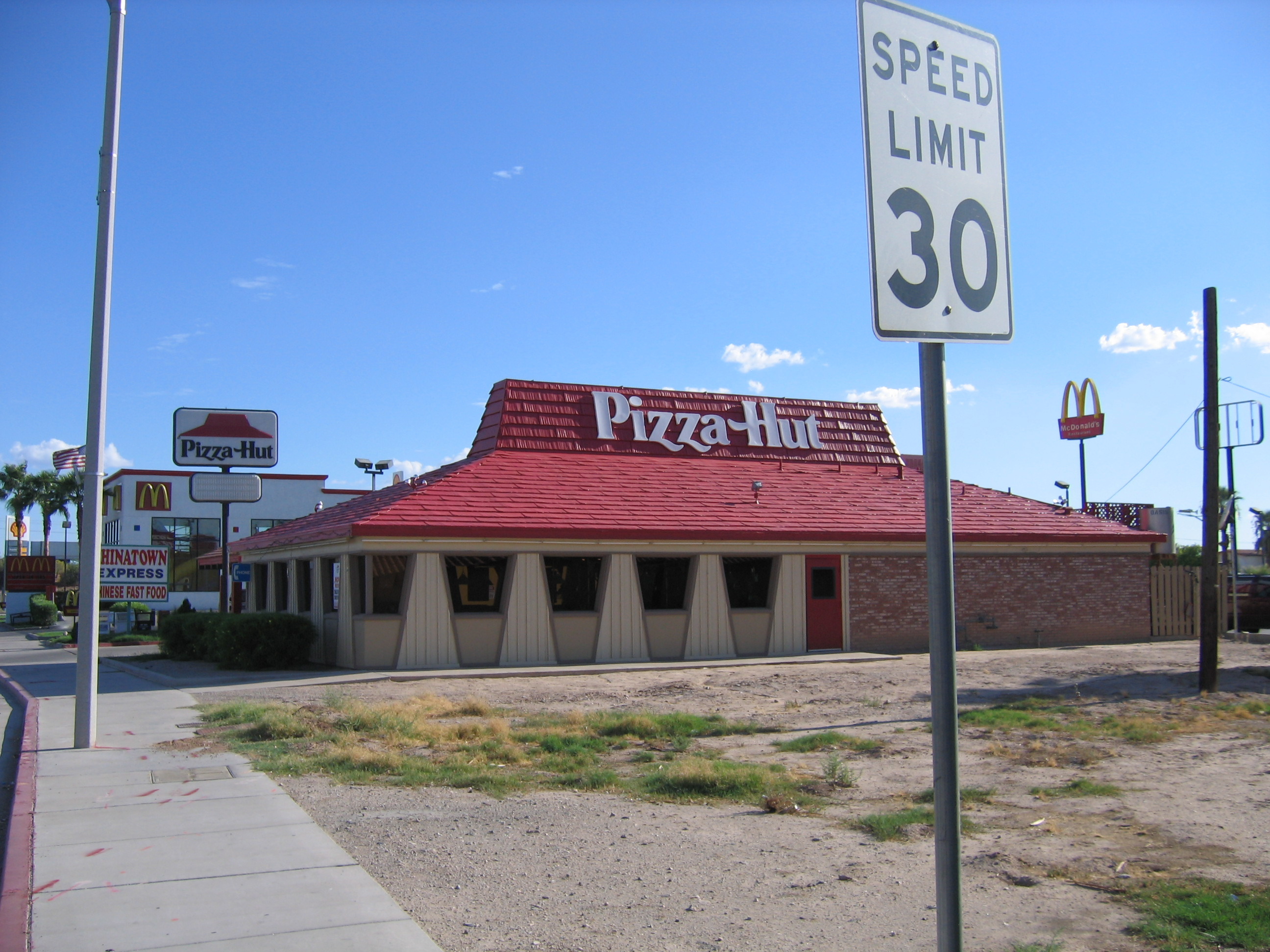 A Pizza Hut restaurant in Southwestern USA. 151 South Lovekin Boulevard, Blythe, Riverside County, California, United States.